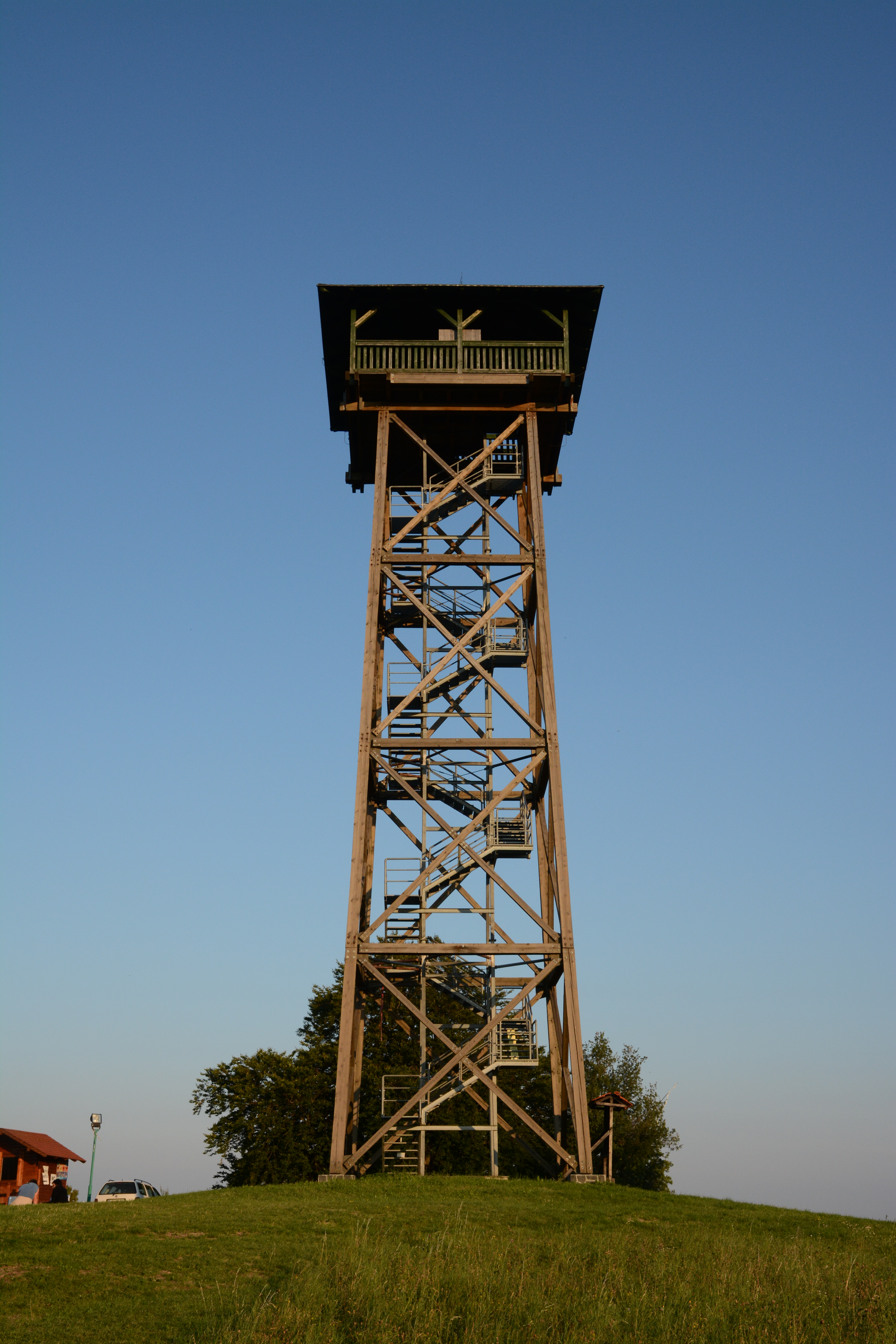 Placki vrh Kungota